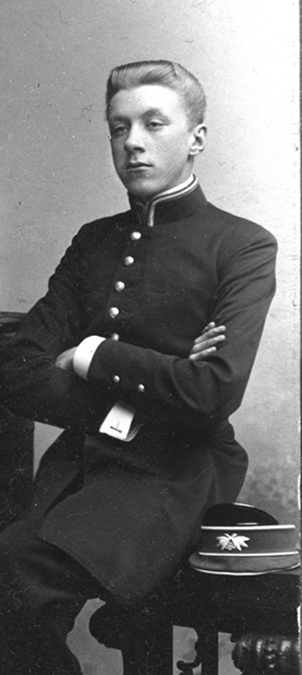 Benjamin de Jekhowsky, student of Moscow University, Russian-Polish-French astronomer